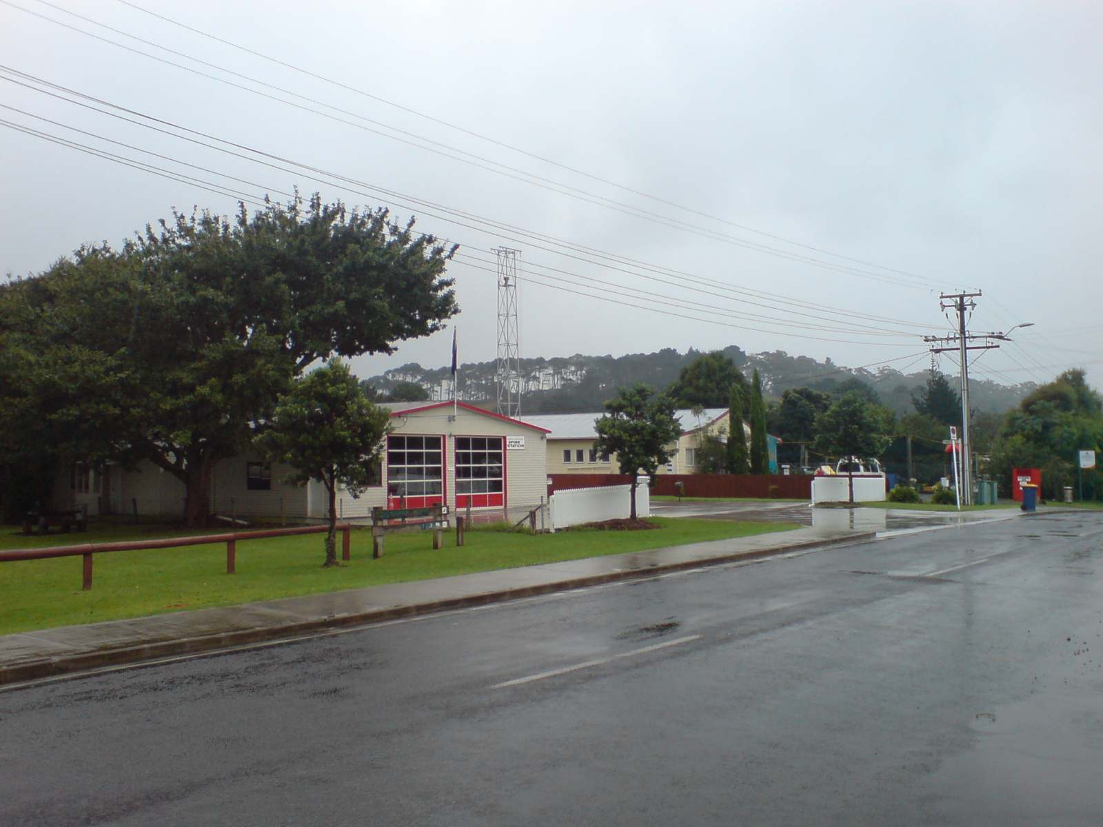 The fire station in the Waitakere suburb of Auckland, New Zealand. Looking northwest.